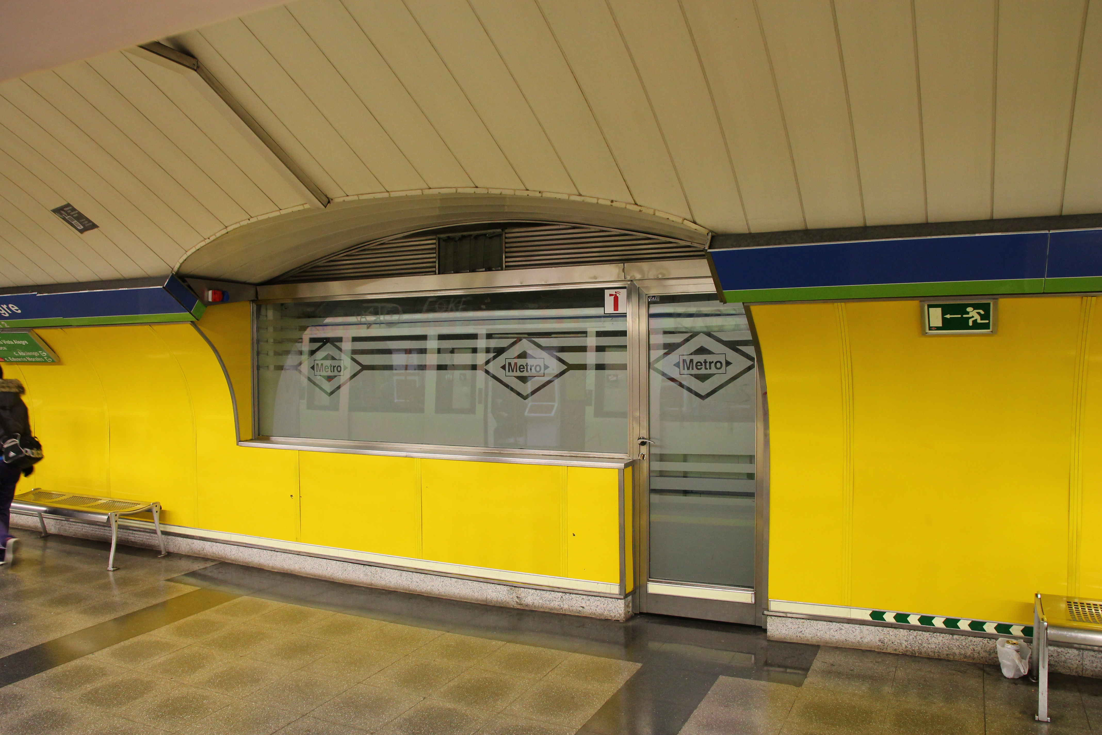 Estación de Vista Alegre